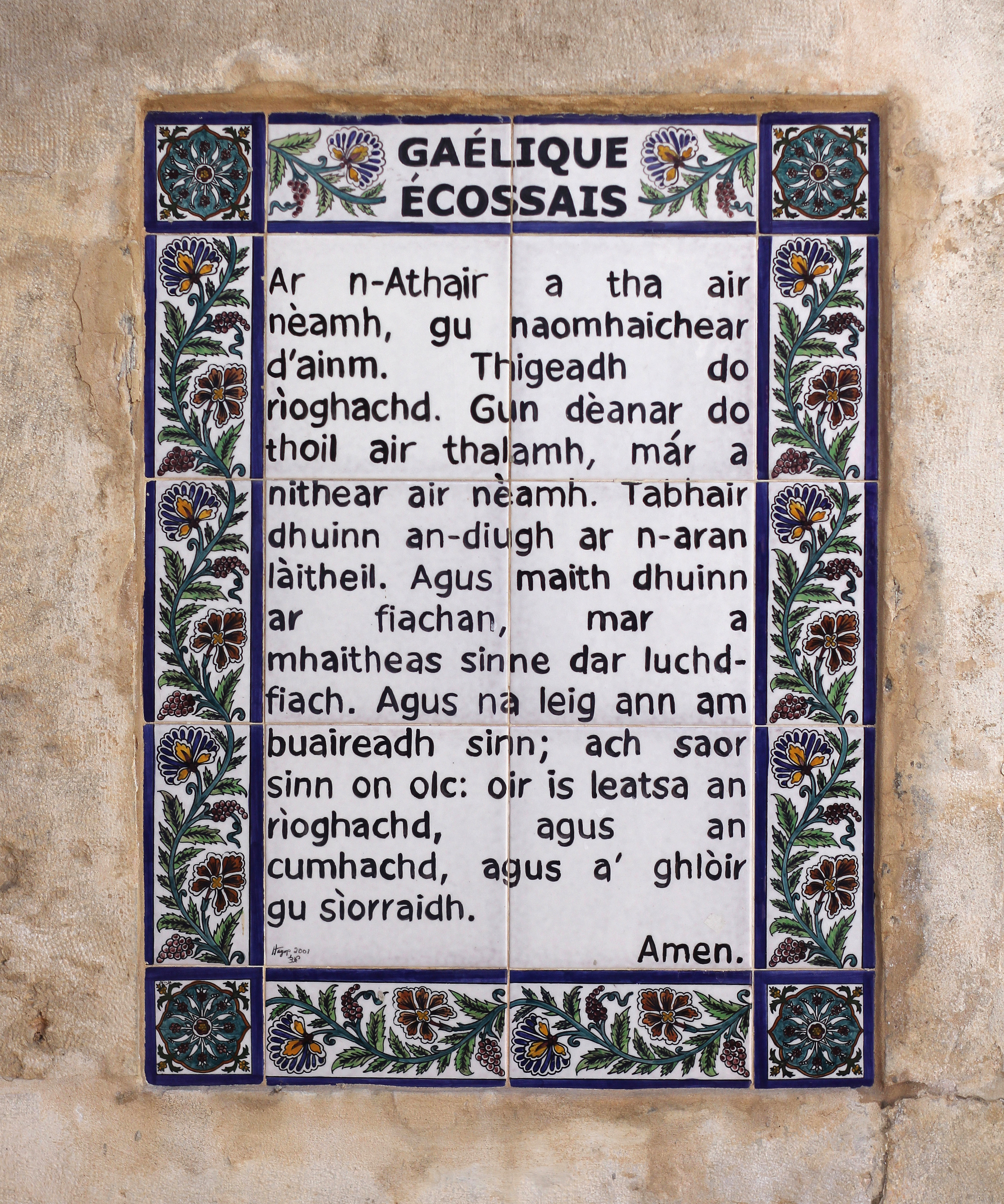 Church of the Paternoster, Jerusalem, the Lord's Prayer in Scotish Gaelic language